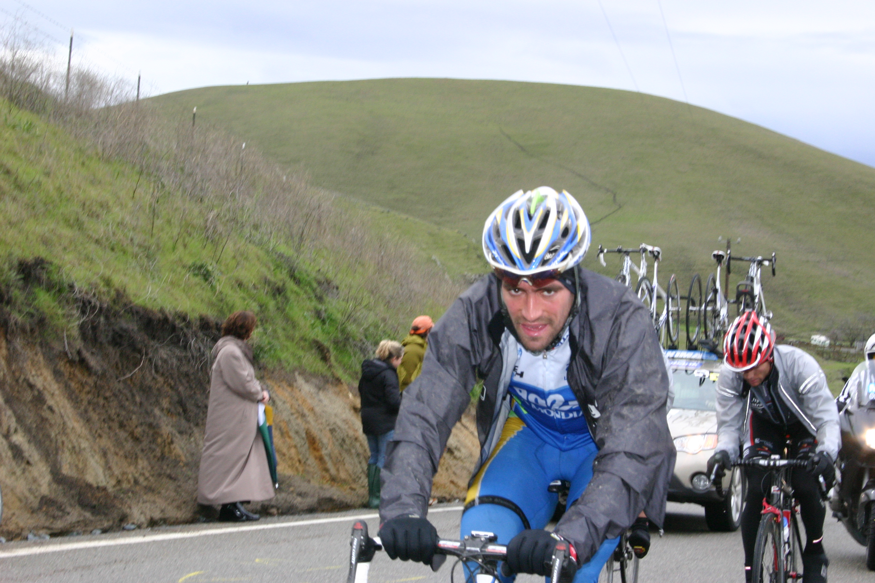 Christophe Riblon - off the back of the main field - climbing up Patterson Pass during Stage 3 of the 2009 Tour of California